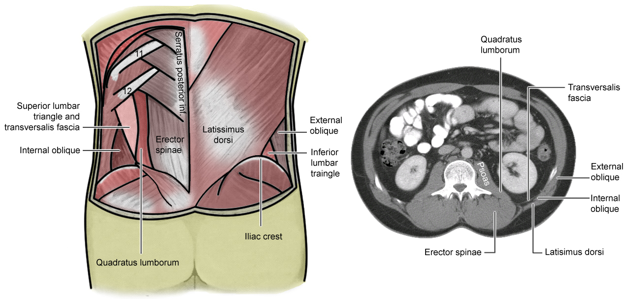 Created by Behrang Amini